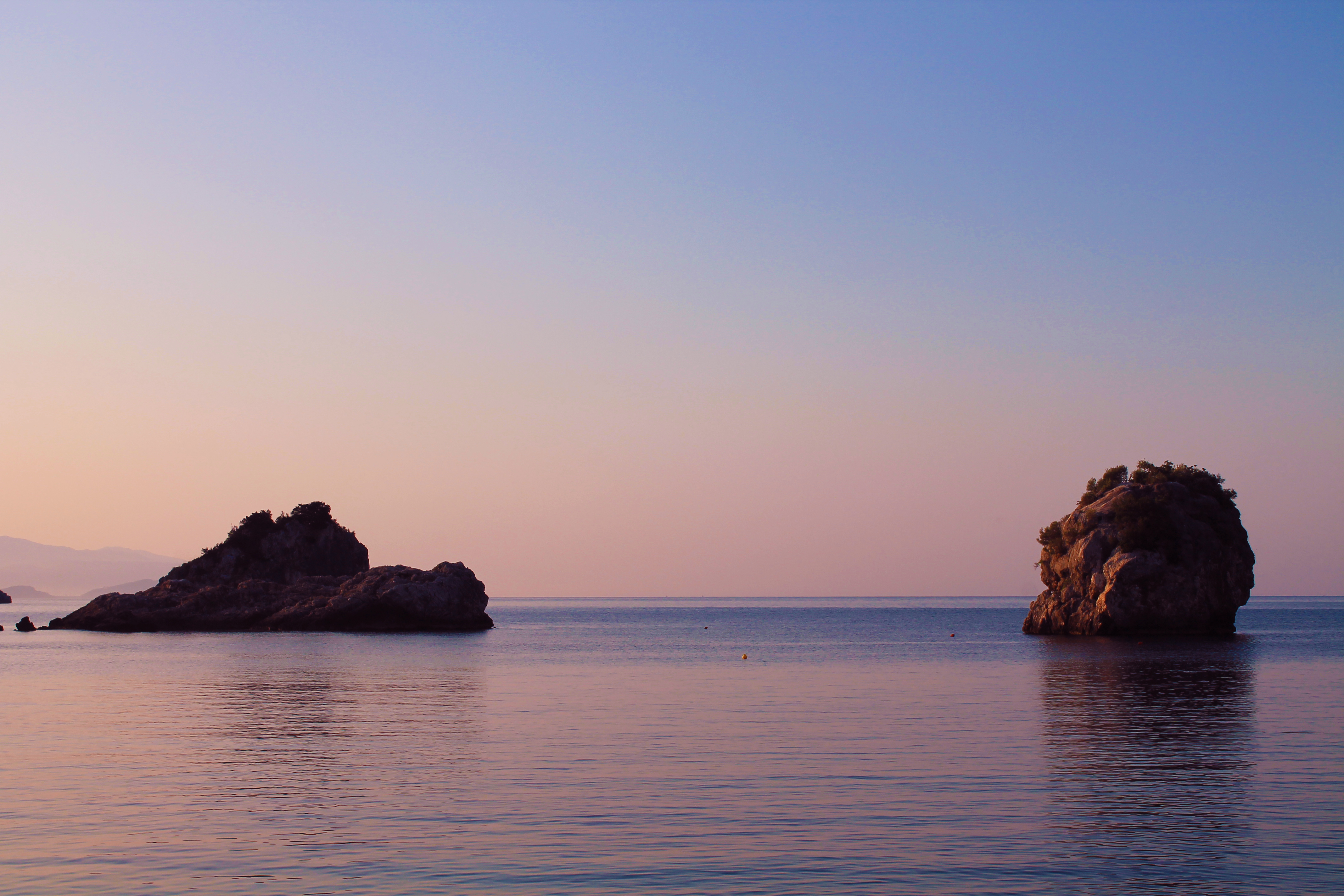 This photo was taken by Claudio Cuomo.